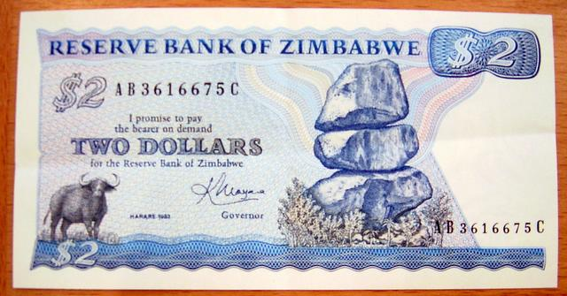 Zimbabwe-2dollar bill צילמתי.